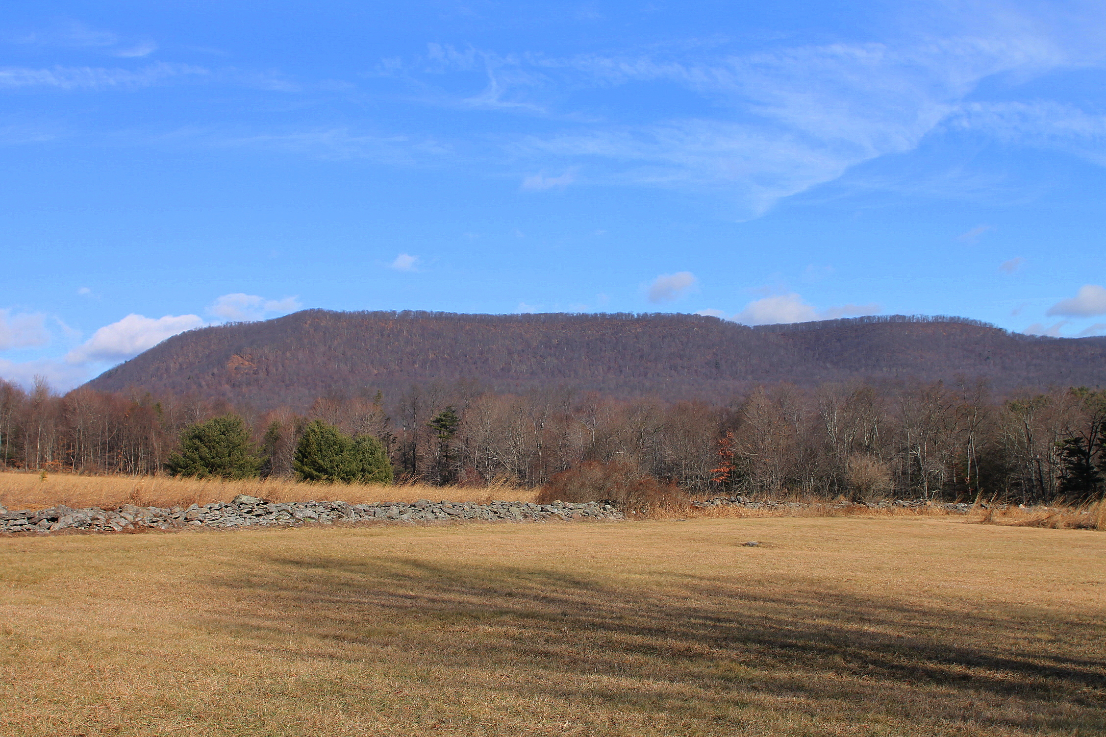 Central Mountain from South Comstock Road